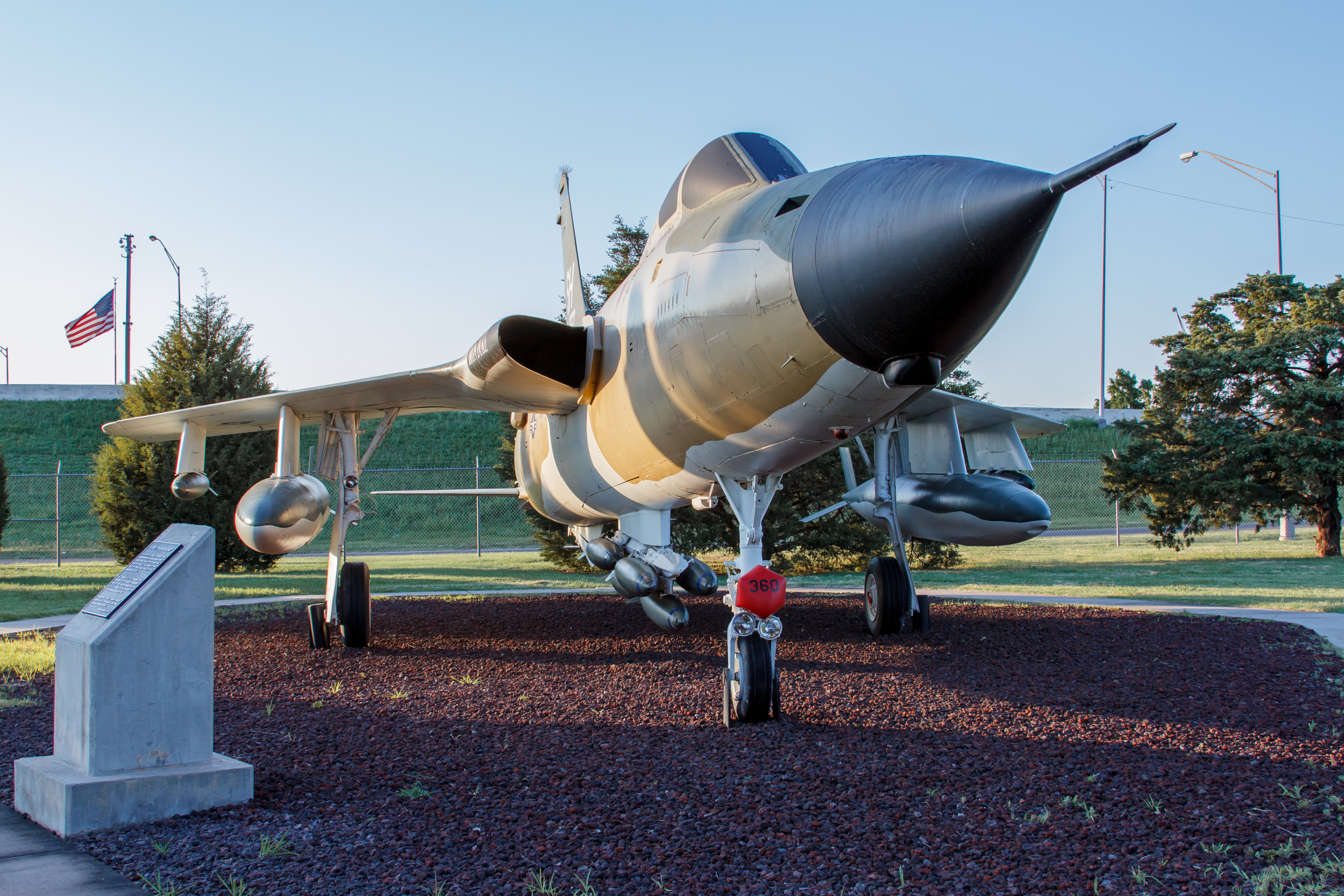 A F-105 Thunderchief on display at Tinker Air Force Base, Oklahoma.